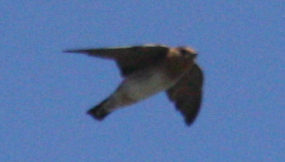 Cave Swallow Petrochelidon fulva, Bentsen-Rio Grande State Park, Hidalgo county, TX. One in a massive swarm of over 300 birds, including about 10 Barn Swallows and about 5 Tree Swallows.